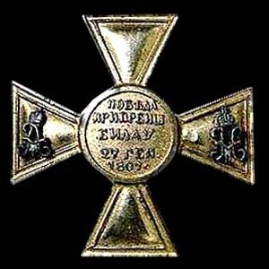 Badge of kirasirsky His Majesty Guard Regiment